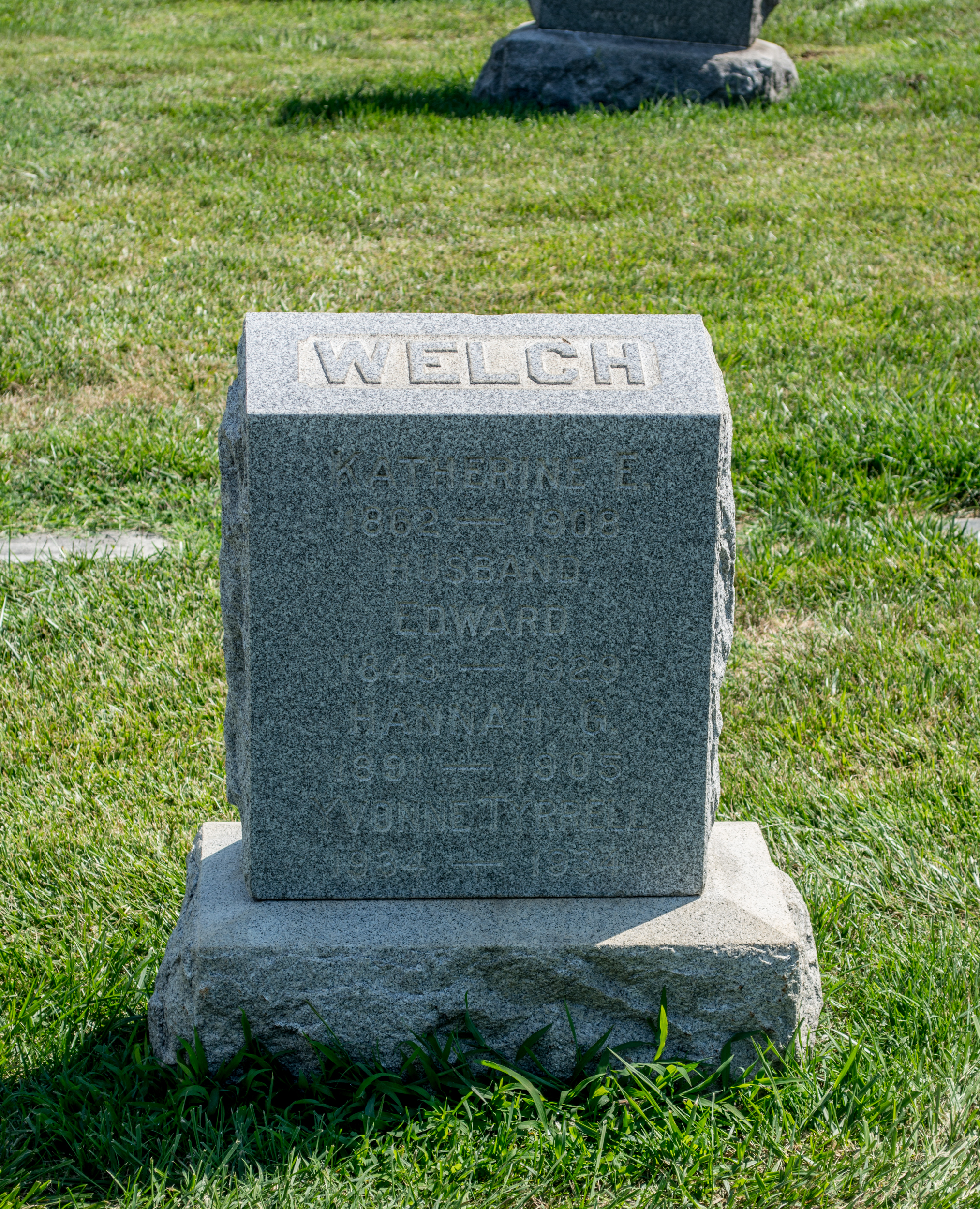 Grave of Edward Welsh (also known as Edward Welch) in section eight in Mount Olivet Cemetery in Washington, D.C., in the United States. Welsh was born in Ireland on January 3, 1843. It is unclear when he emigrated to the United States, but he was living in Cincinatti, Ohio, when he enlisted in the Union Army at the outbreak of the American Civil War in 1861. On May 22, 1863, General Ulysses S. Grant ordered an assault on the Confederate Army's positions on the heights overlooking Vicksburg, Mississippi. Volunteers were needed to build a bridge across a moat and plant scaling ladders against the enemy embankment in advance of the main attack. Welsh volunteered. He and his fellow soldiers were pinned down in the moat and unable to retreat until nightfall. Of the 150 men in the storming party, 71 were killed. The 79 survivors each received the Medal of Honor. Edward Welsh died in Washington, D.C., on February 1, 1929, and was interred at Mount Olivet Cemetery.